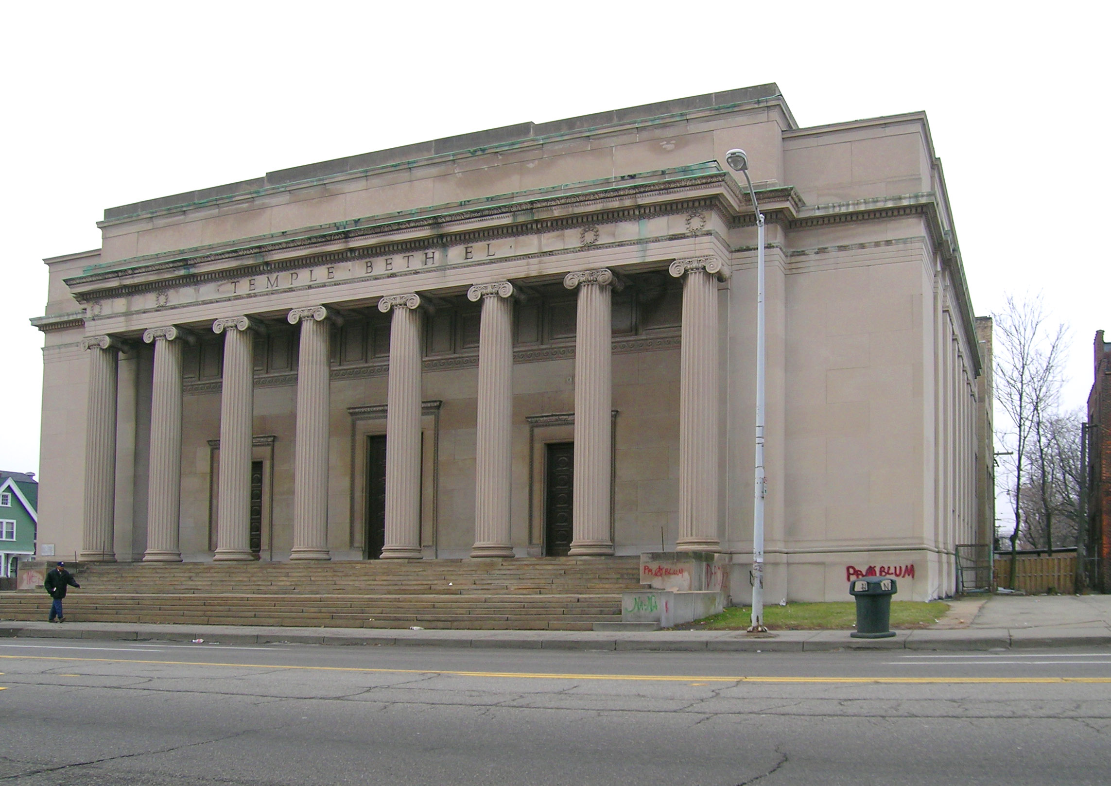 Temple Beth-El (1921) — Beth-El's second temple, in central Detroit, southeastern Michigan. Designed by congregant Albert Kahn in the Neoclassical style, now on the National Register of Historic Places (NRHP # 82002912). Present day Lighthouse Cathedral.